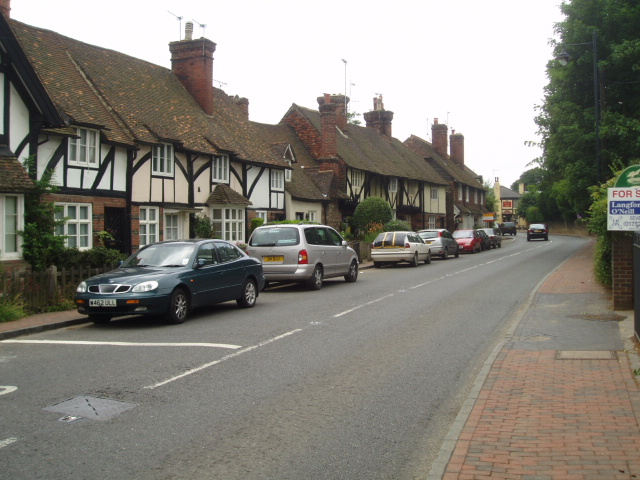 Brasted High Street on the A25. Picture taken from close to the village hall, this village was 'saved' by the building of the M25 nearby.